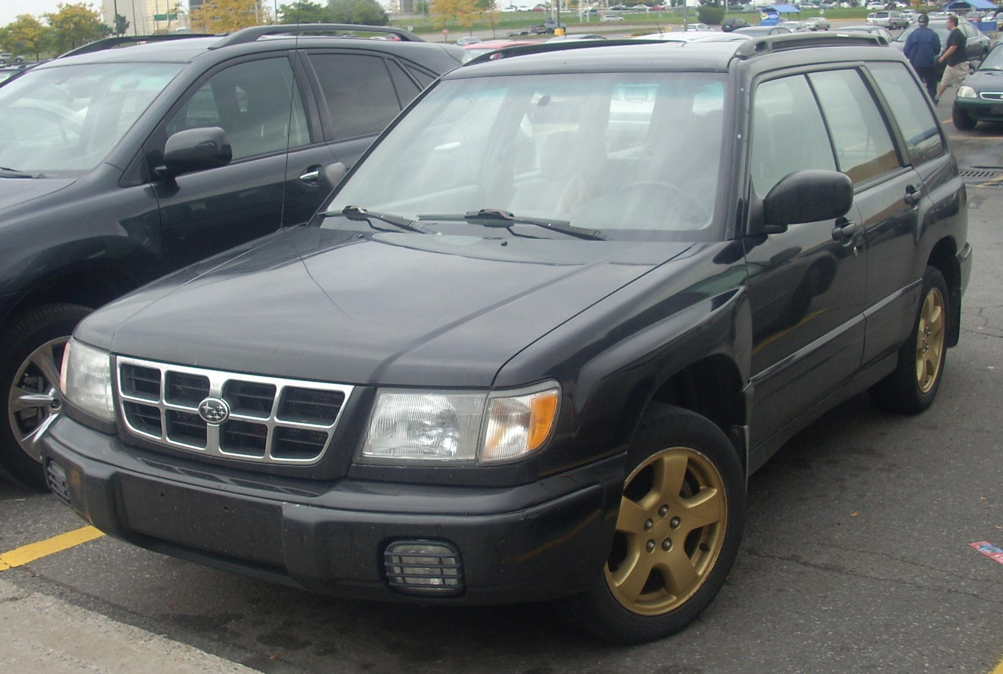 1998-2000 Subaru Forester photographed in Montreal, Quebec, Canada.